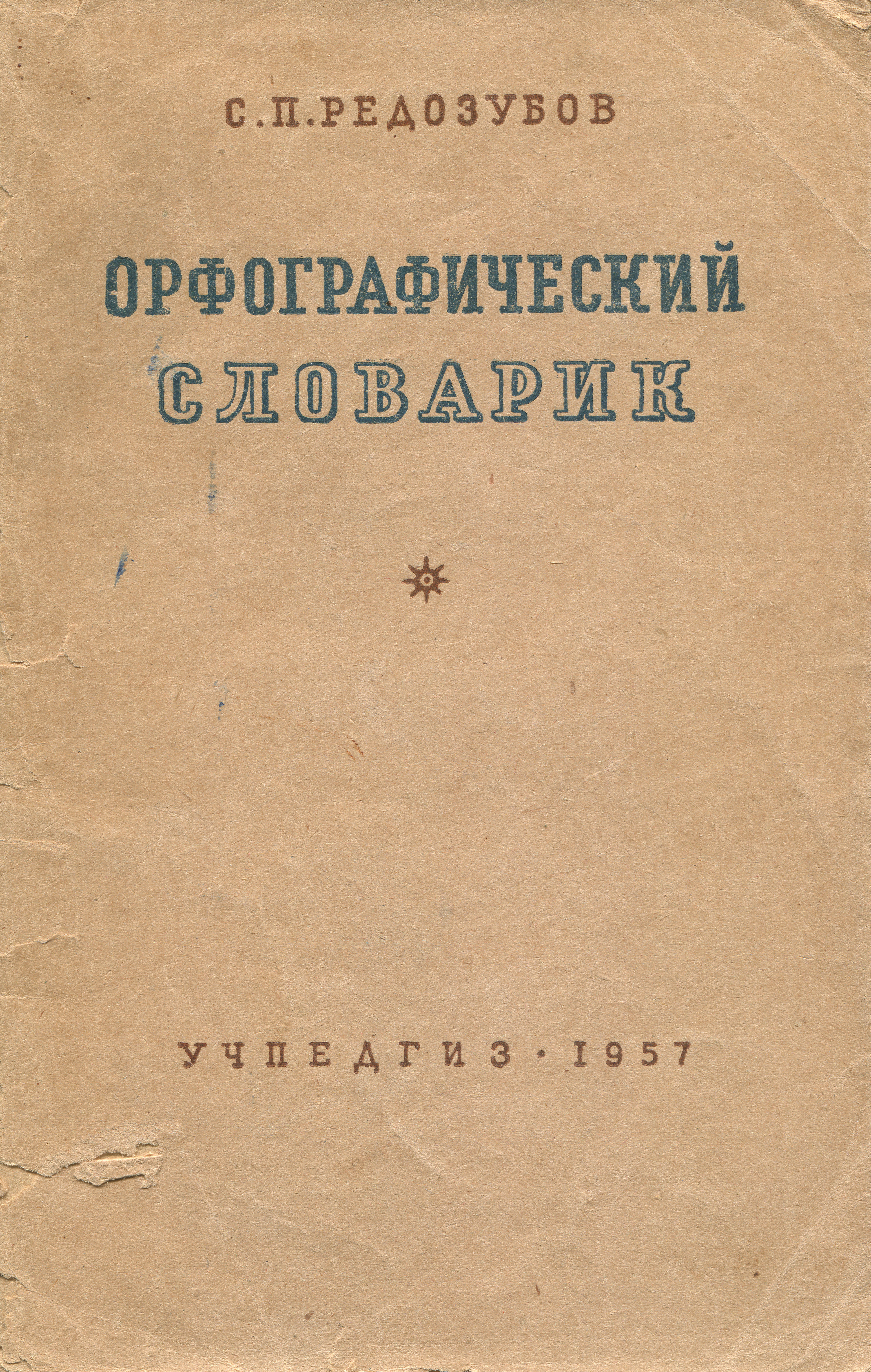 Spelling dictionary for a schoolboy.